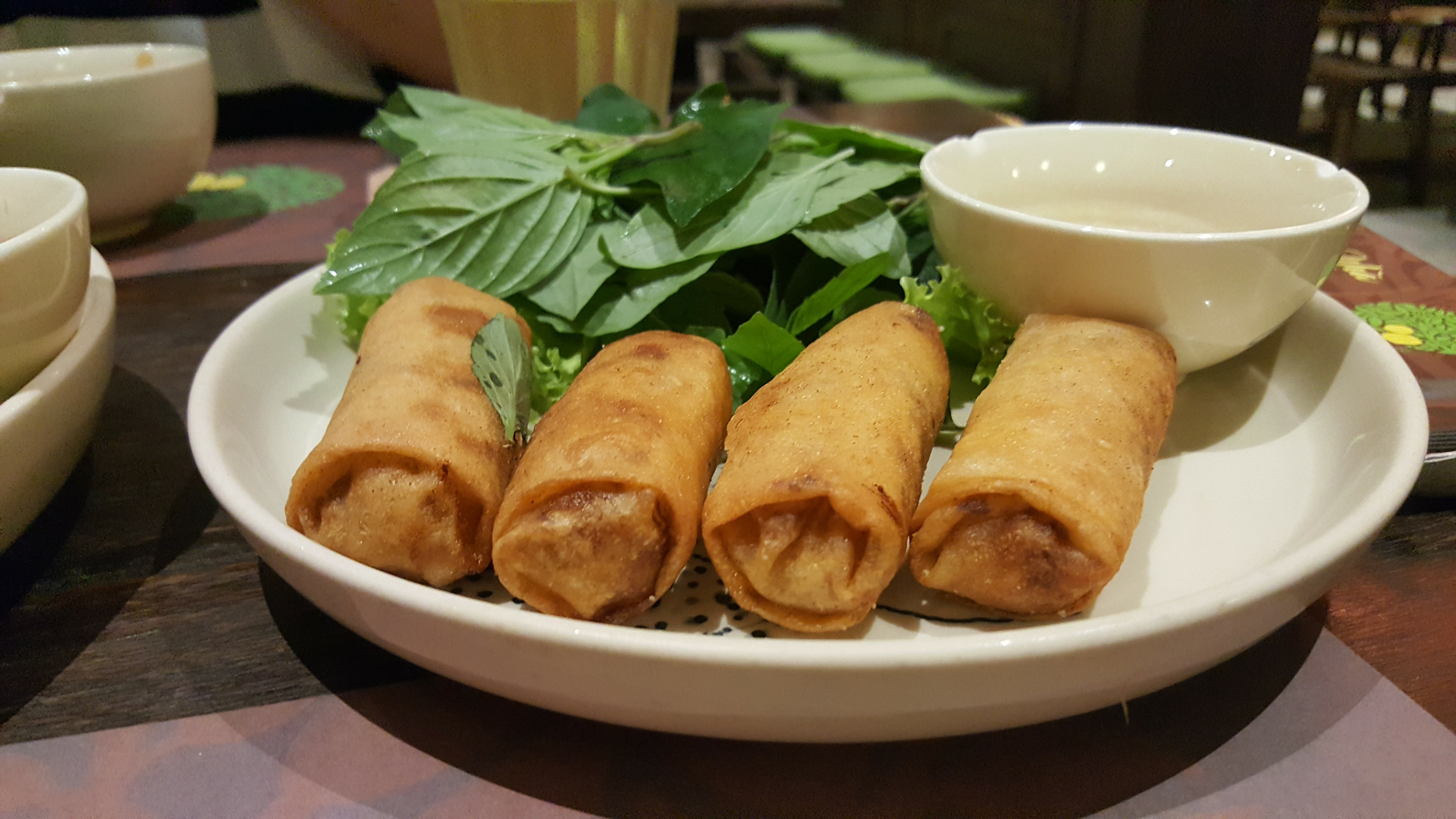 Vietnamese spring roll